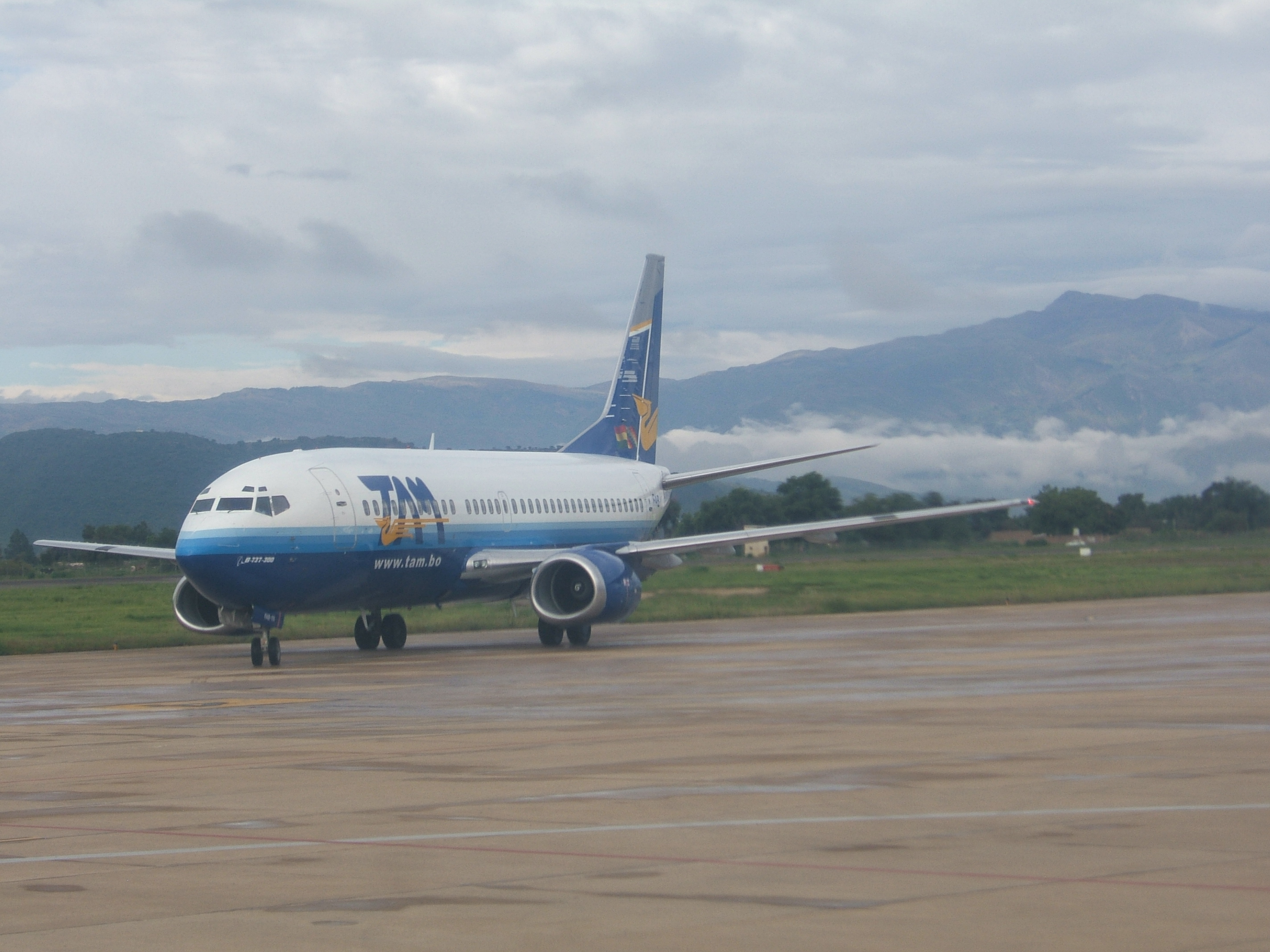 A Boeing 737-300 from TAM at the airport on Cochabamba